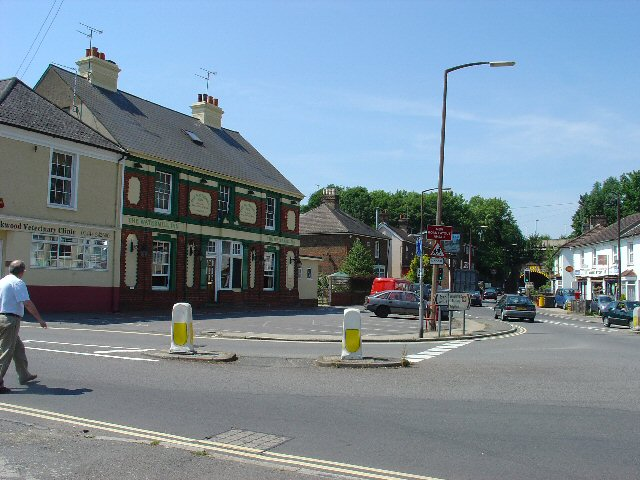 Watermill Inn, Worlds End, Burgess Hill, West Sussex. This view, taken looking WSW shows the Watermill Inn on the left. In the distance is a railway bridge, which is also the location of Wivelsfield Station (left of bridge).